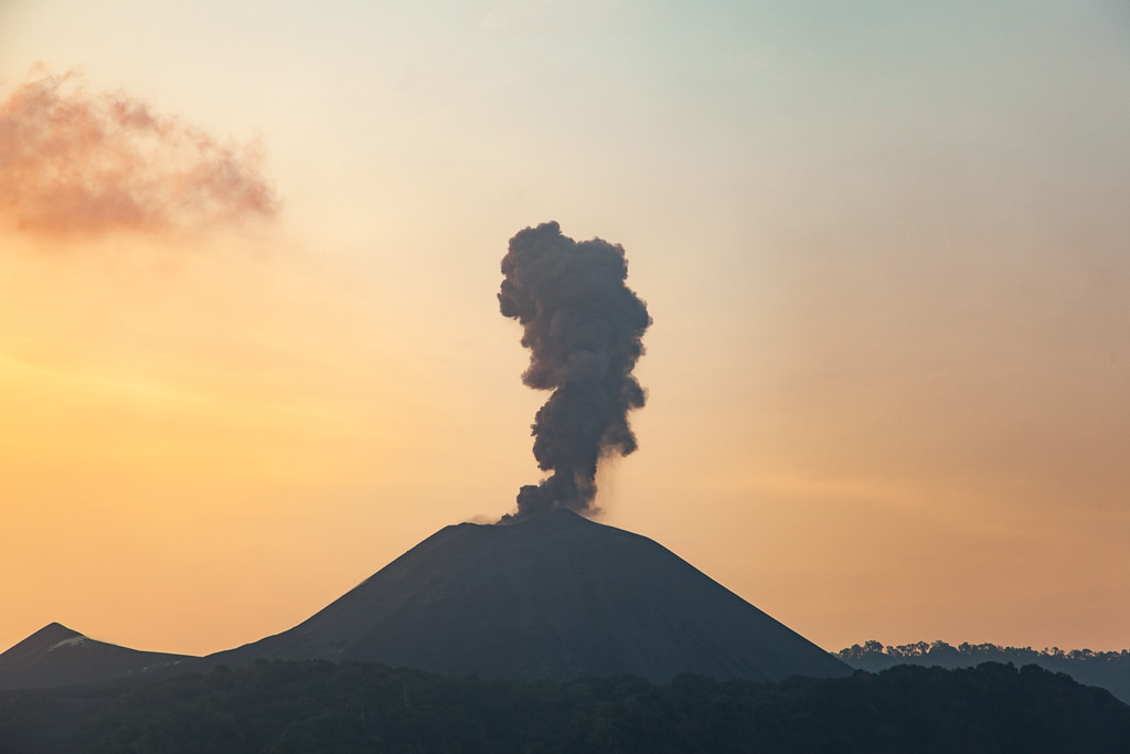 Barren Island, in the Andaman Islands, India, spews smoke and ash into the air in January 2014